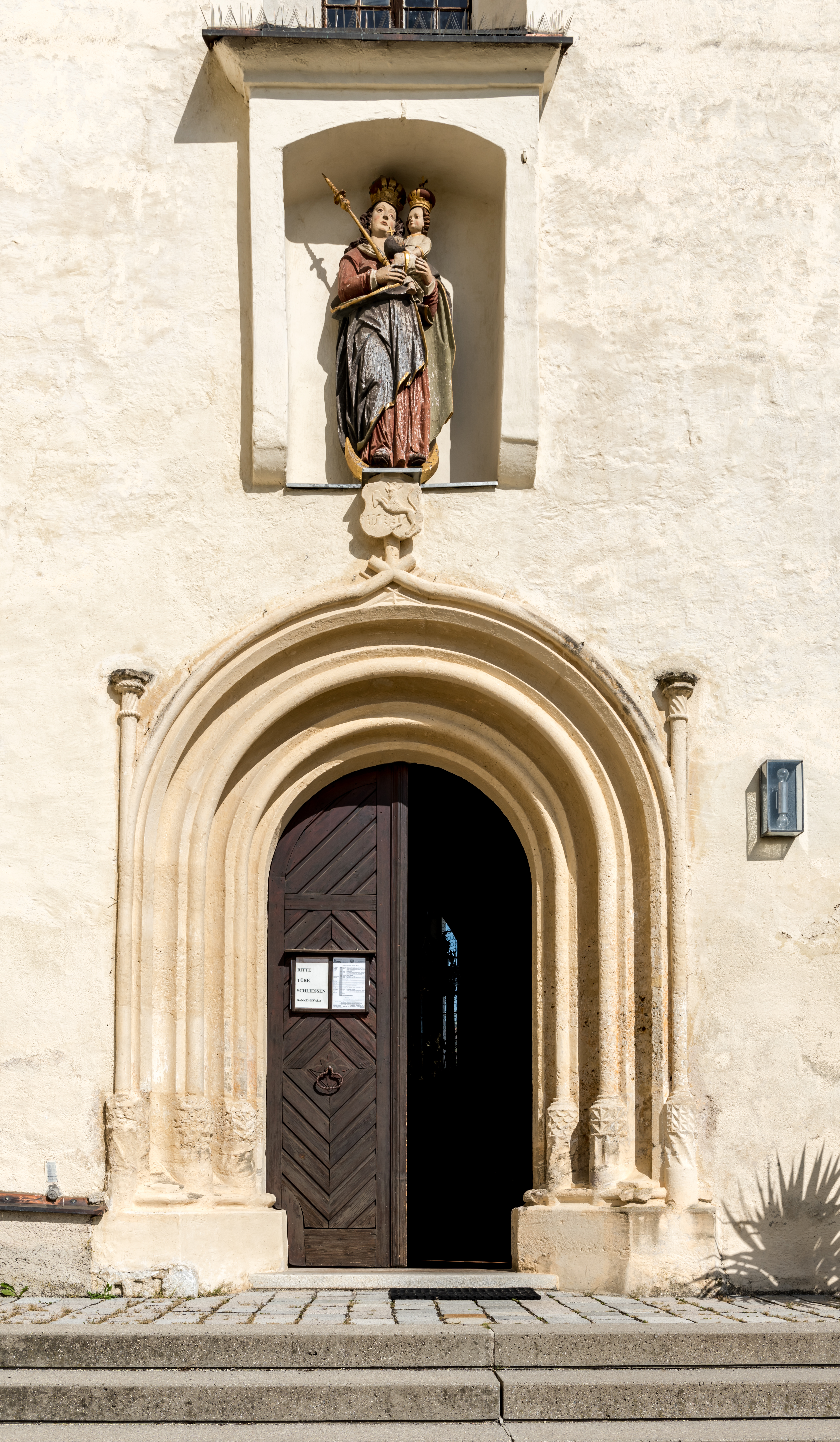 Late Gothic western portal with baroque statue of Madonna on the crescent at an overdoor niche of the Augustinian Canons' monastery church the Assumption of Mary on Kirchplatz #1, market town Eberndorf, district Völkermarkt, Carinthia, Austria, European Union